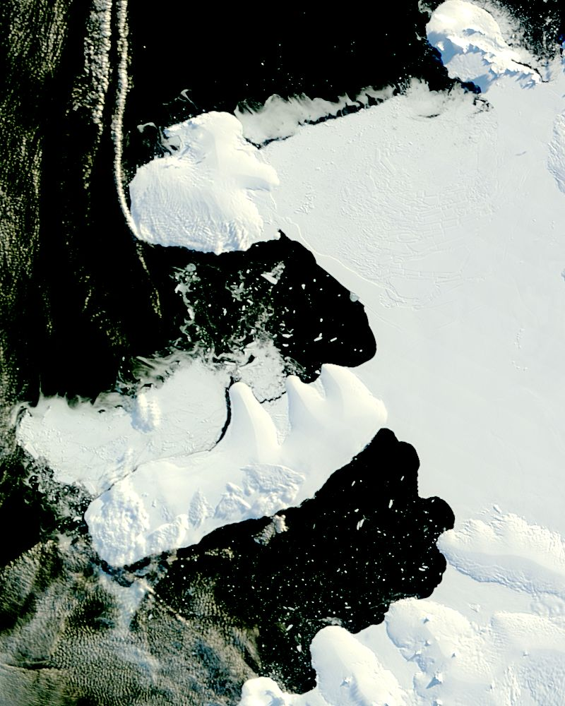 This image, taken by the MODIS instrument on NASA’s Terra satellite, shows the Wilkins ice bridge still intact. The ice appears to be smooth, an unbroken surface.